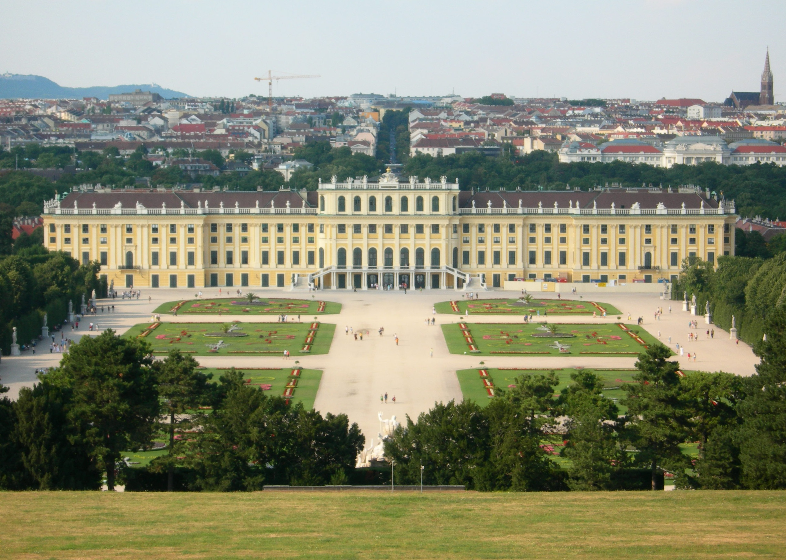 Austria, Vienna, Schönbrunn Palace